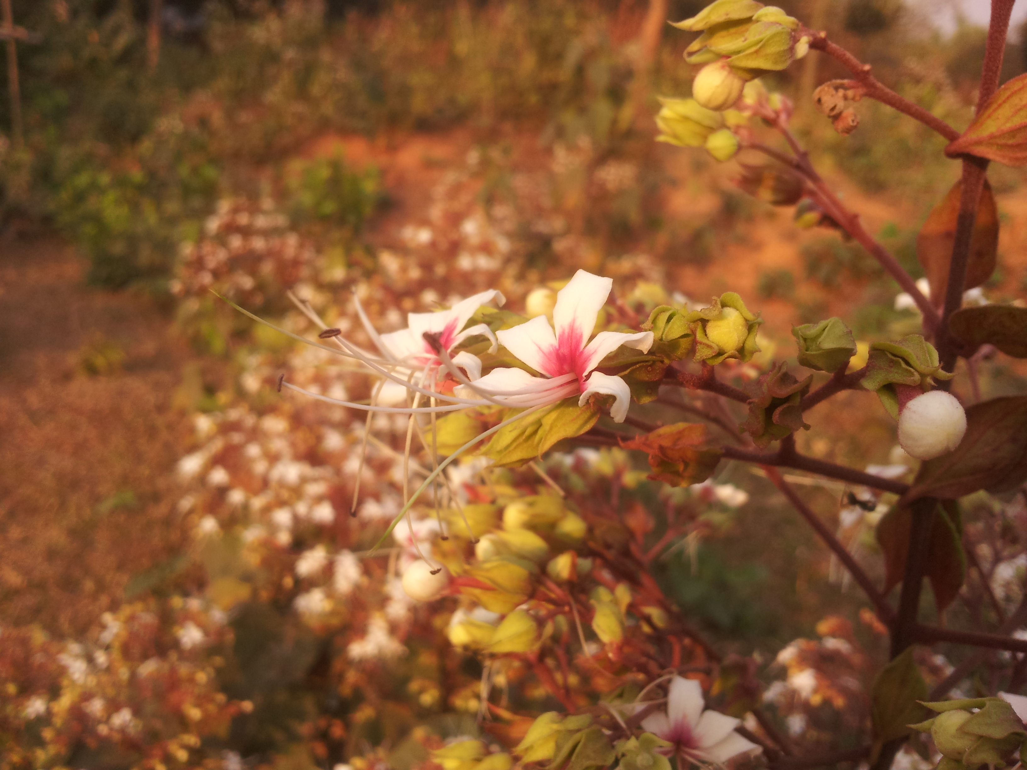 Flower of Clerondendron viscosum.